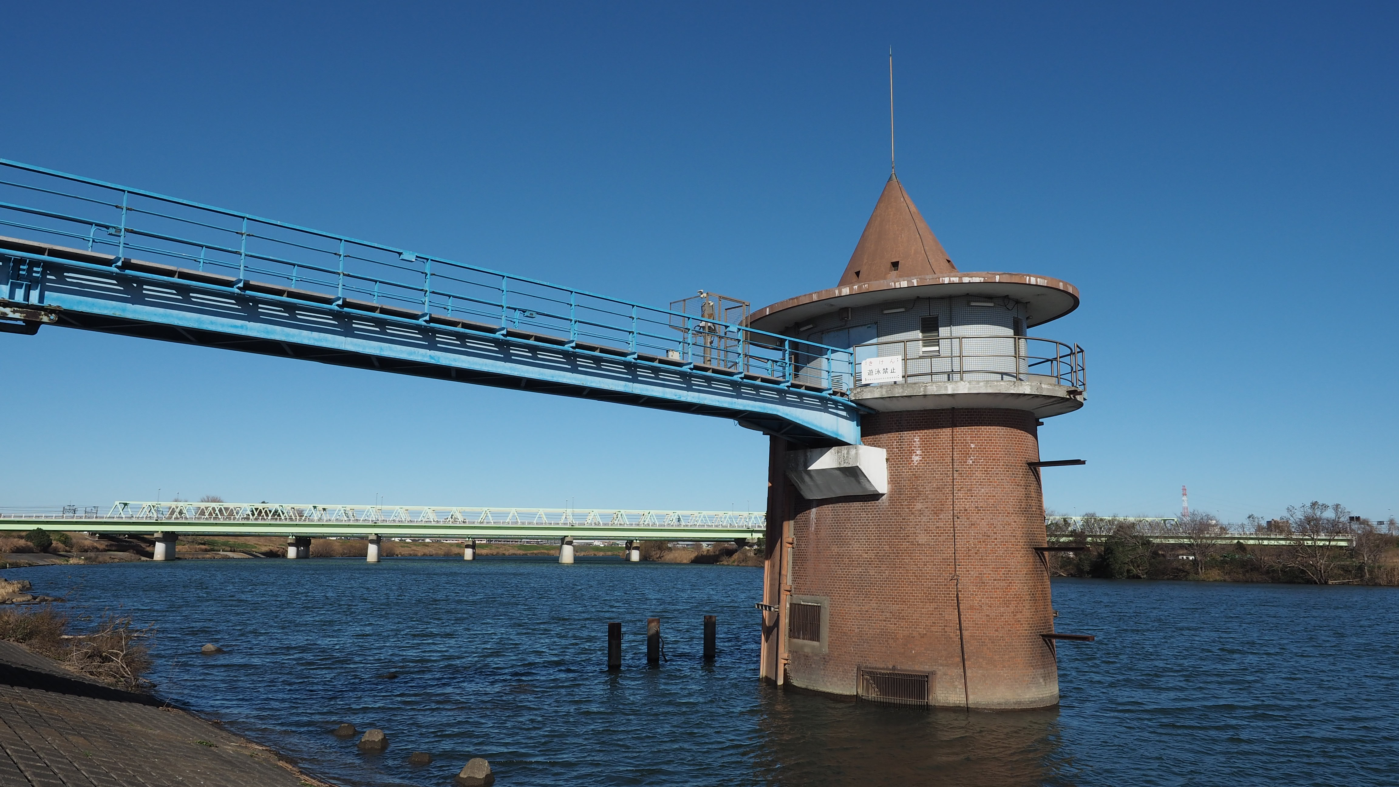 The No.2 water intake tower of Kanamachi water purification plant, Tokyo, Japan.